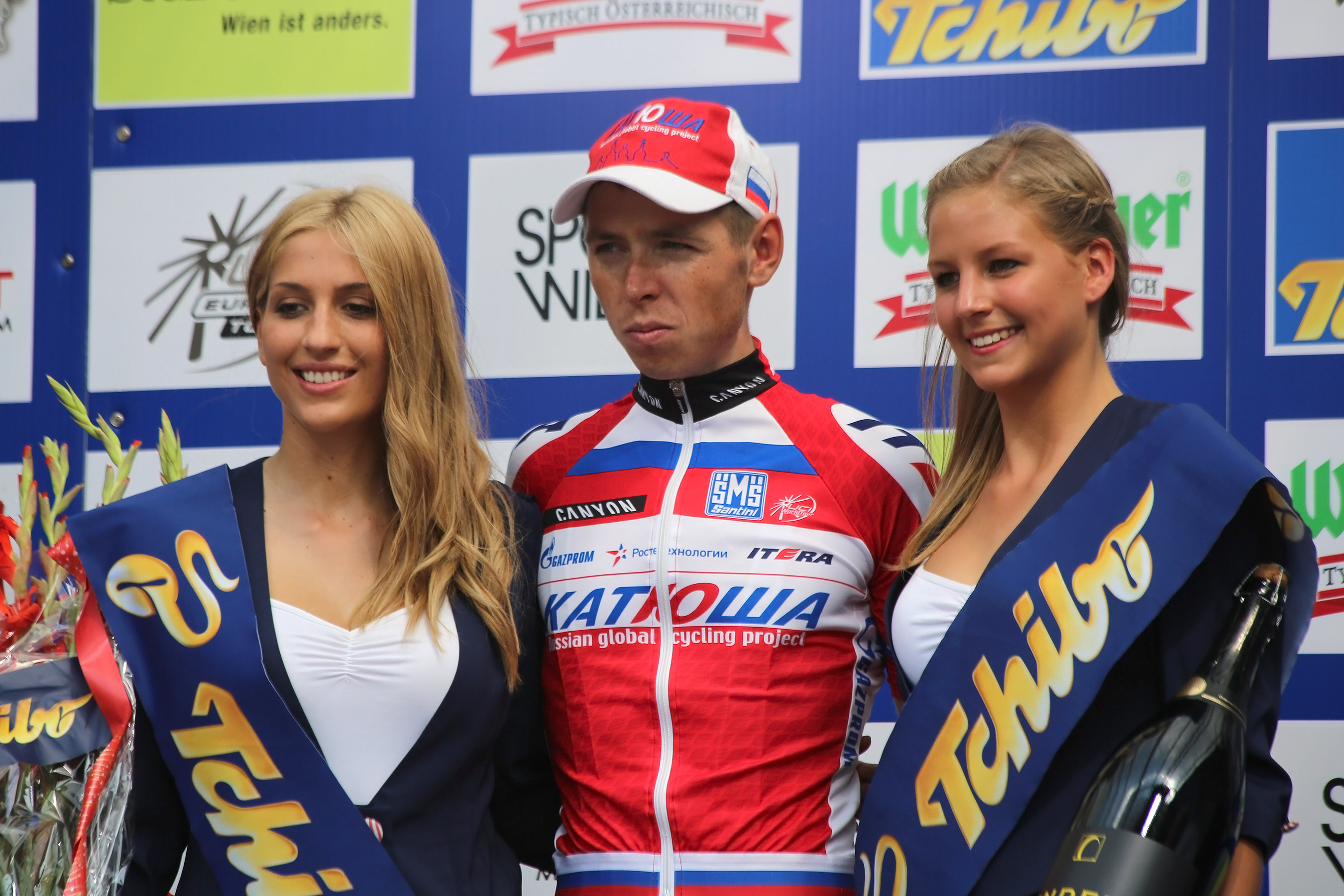 Sergey Chernetskiy, the best cyclist under 25 of the tour, at the award ceremony of the Tour of Austria in Vienna, Austria.